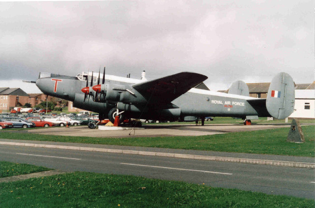 Shackleton Aircraft near entrance to RAF St Mawgan. For a number of years in the 1950s these aircraft were based at St Mawgan and the nearby airfield of St Eval.